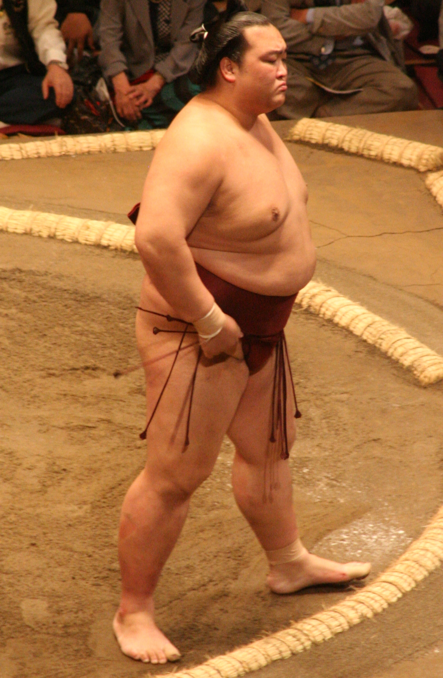 First day of 2009 May Sumo Tournament in Tokyo, Japan - Kisenosato